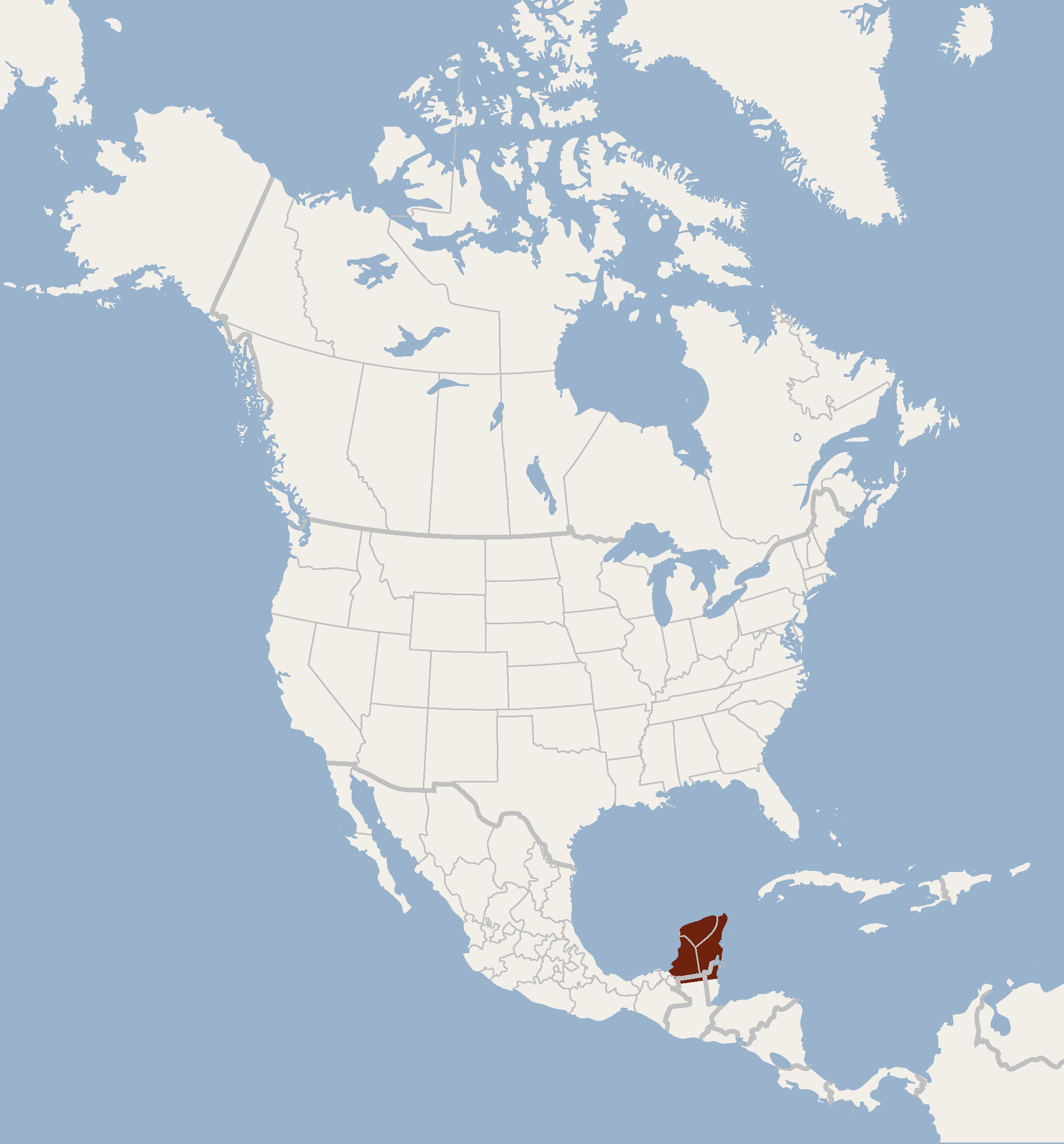 Geographical distribution of Rhogeessa aeneus according to Reid, 2009